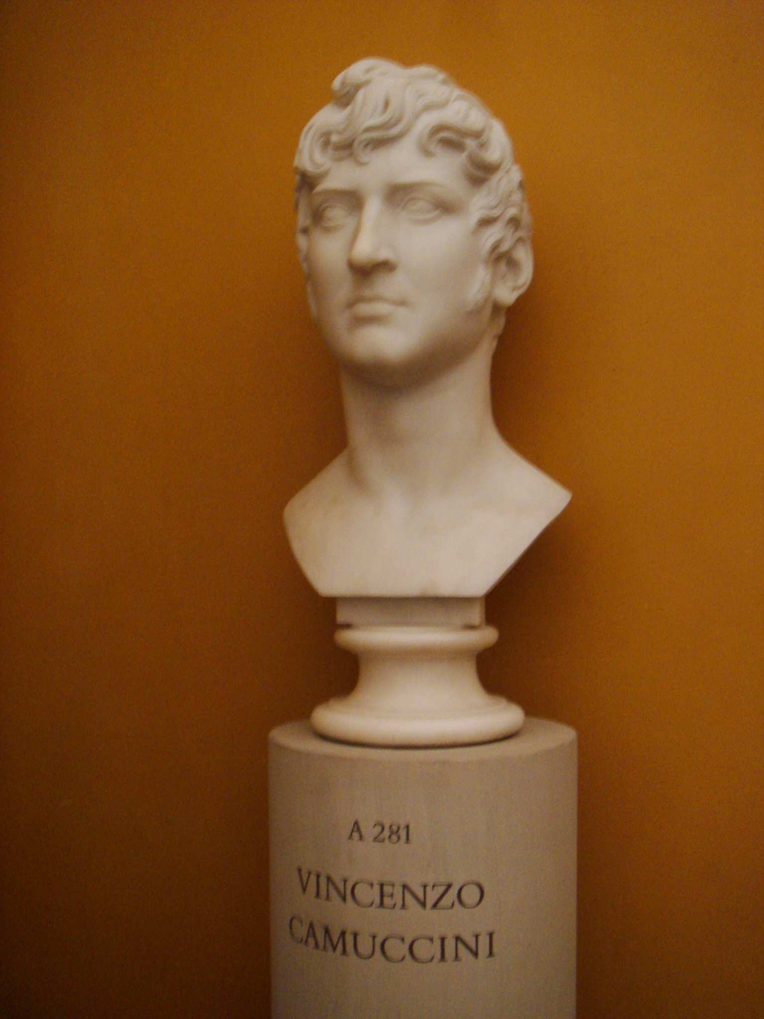 Vincenzo Camuccini, bust by Bertel Thorvaldsen. Museo Thorvaldsen, Copenhagen. Picture by Stefano Bolognini.